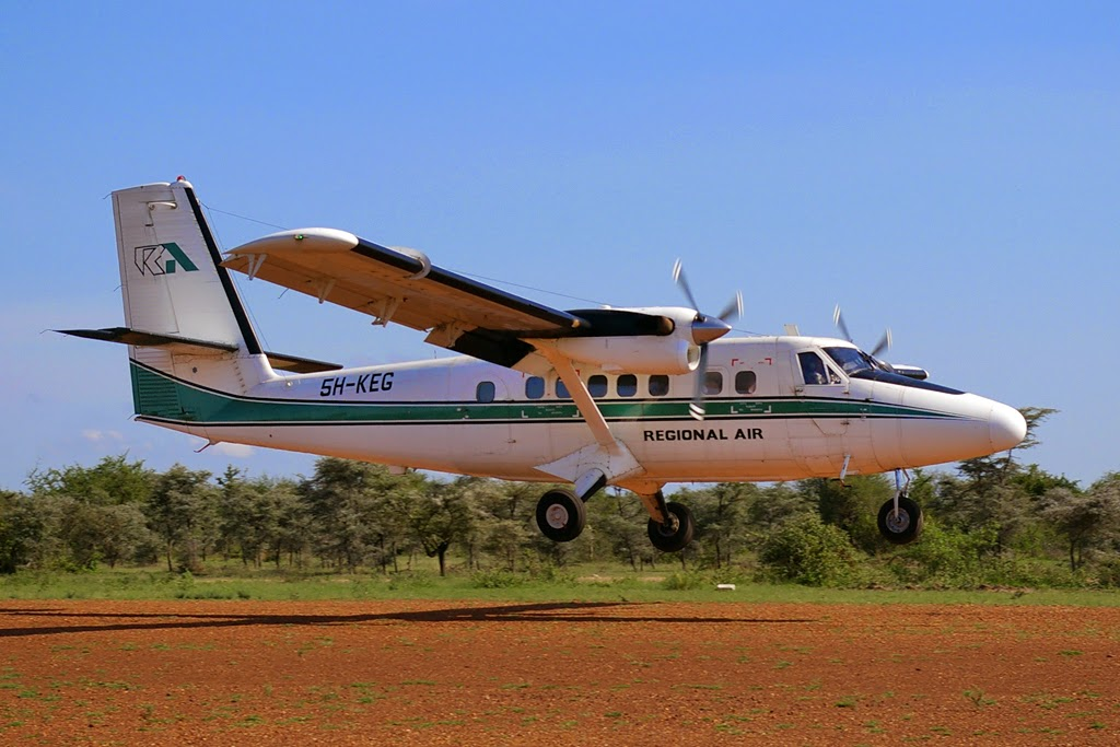 De Havilland Twin Otter 5H-KEG operates in Grumeti Tanzania: the aircraft was formerly 5Y-KEG when it operated for East African Safari Air, before being sold to Air Kenya (Regional Air in Tanzania).